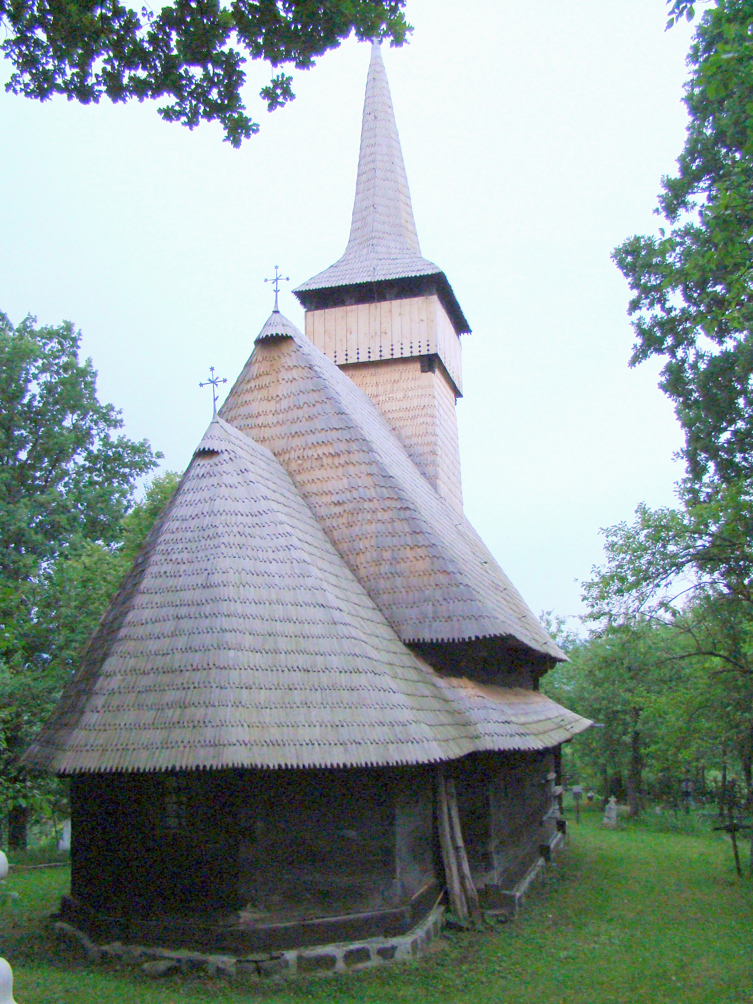 wooden church of Ferești village, Maramureș, Romania